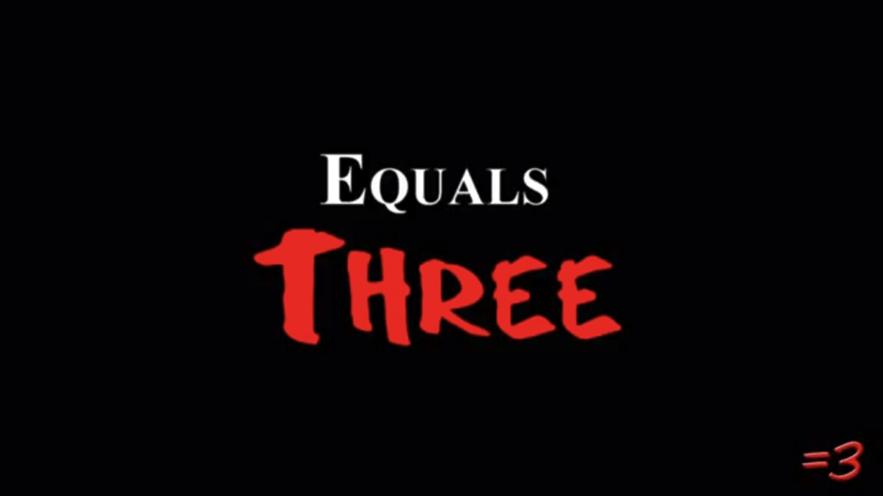 Title card, used from 2008 to 2012, at the beginning of an Equals Three (=3) episode.